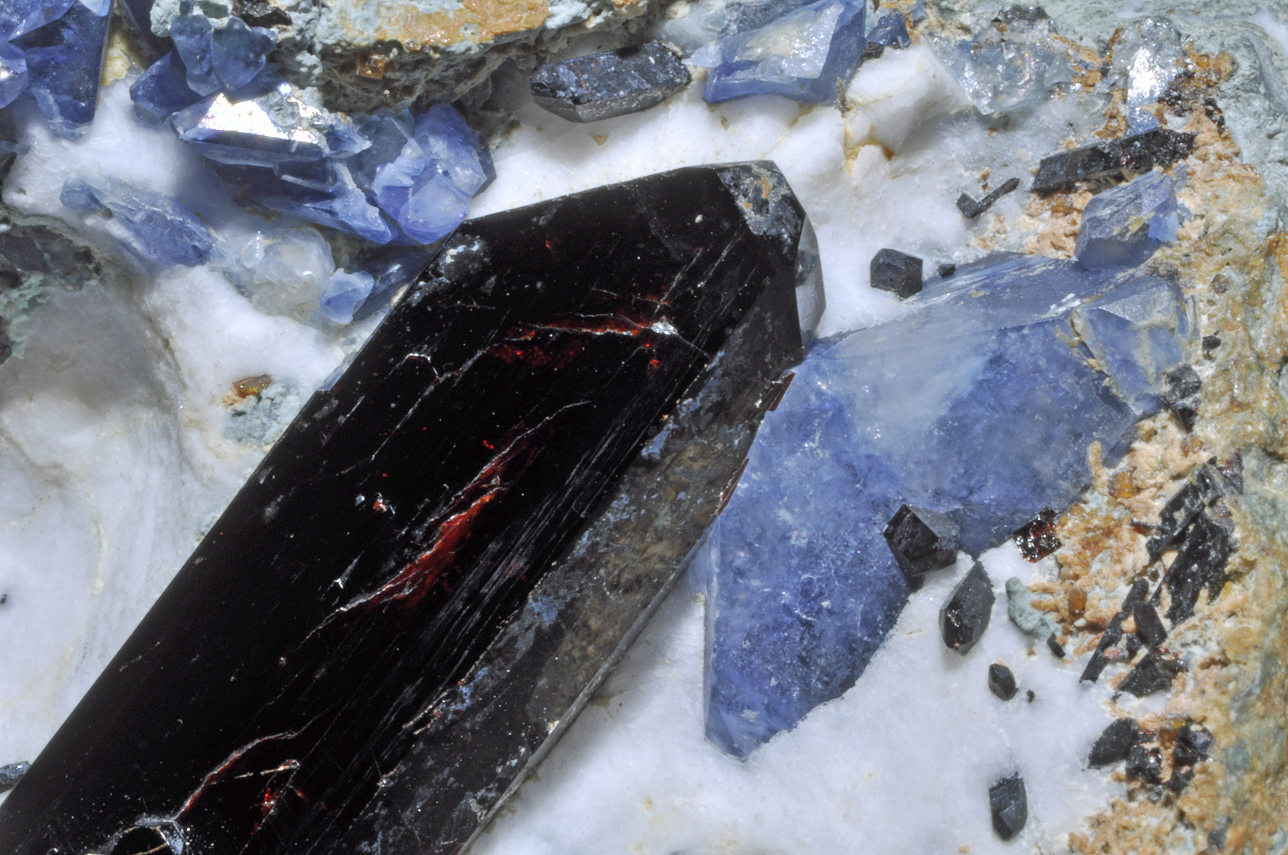 benitoïte, neptunite, joaquinite-(Ce), natrolite, serpentine : Dallas Gem Mine (Benitoite Mine ; Benitoite Gem Mine ; Gem Mine), Dallas Gem Mine area, San Benito River headwaters area, New Idria District, Diablo Range, San Benito Co., California, USA (Locality at ) - benitoïte : 15,5 mm, neptunite : 43 mm (Locality on mindat)